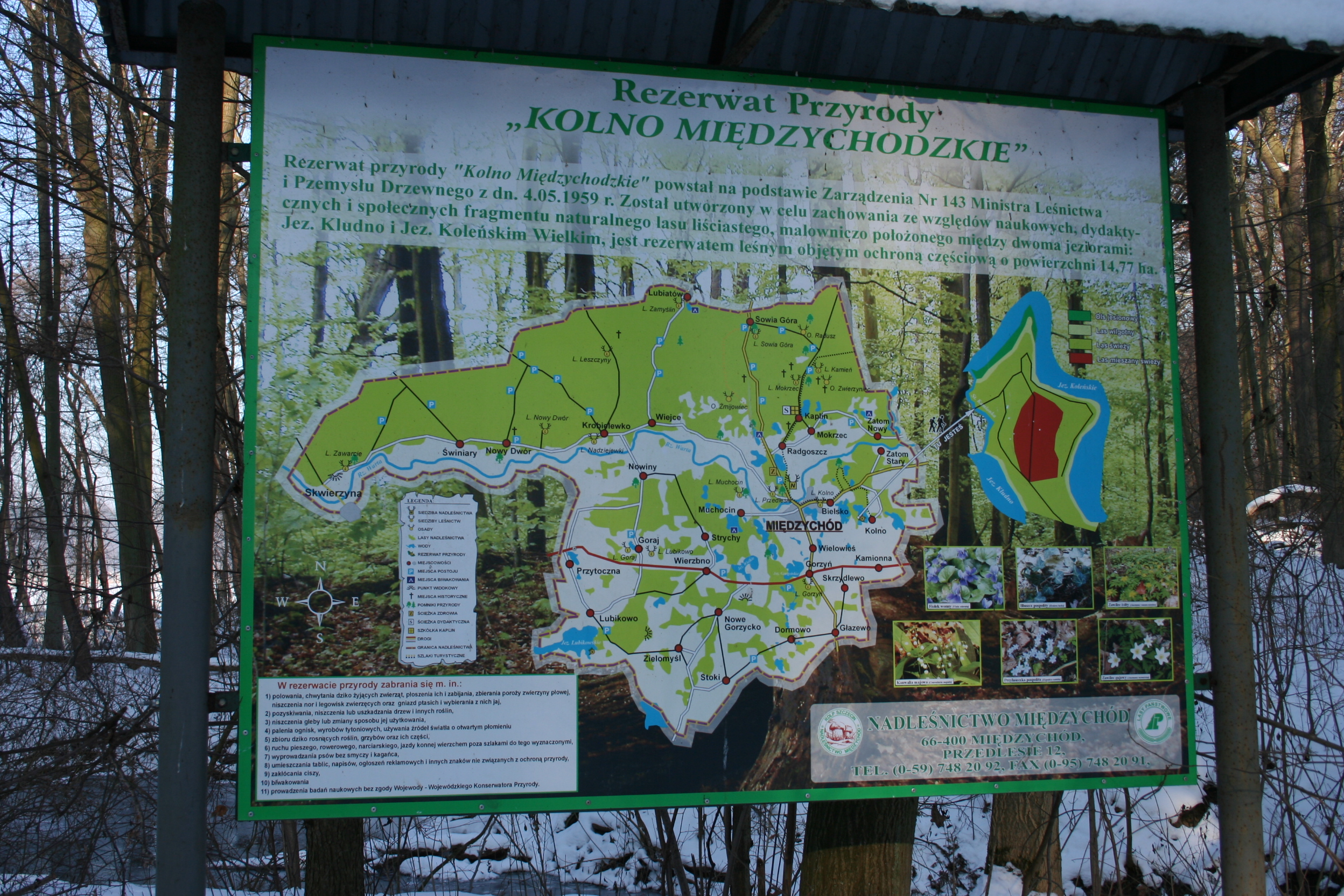 Kolno Międzychodzkie nature reserve